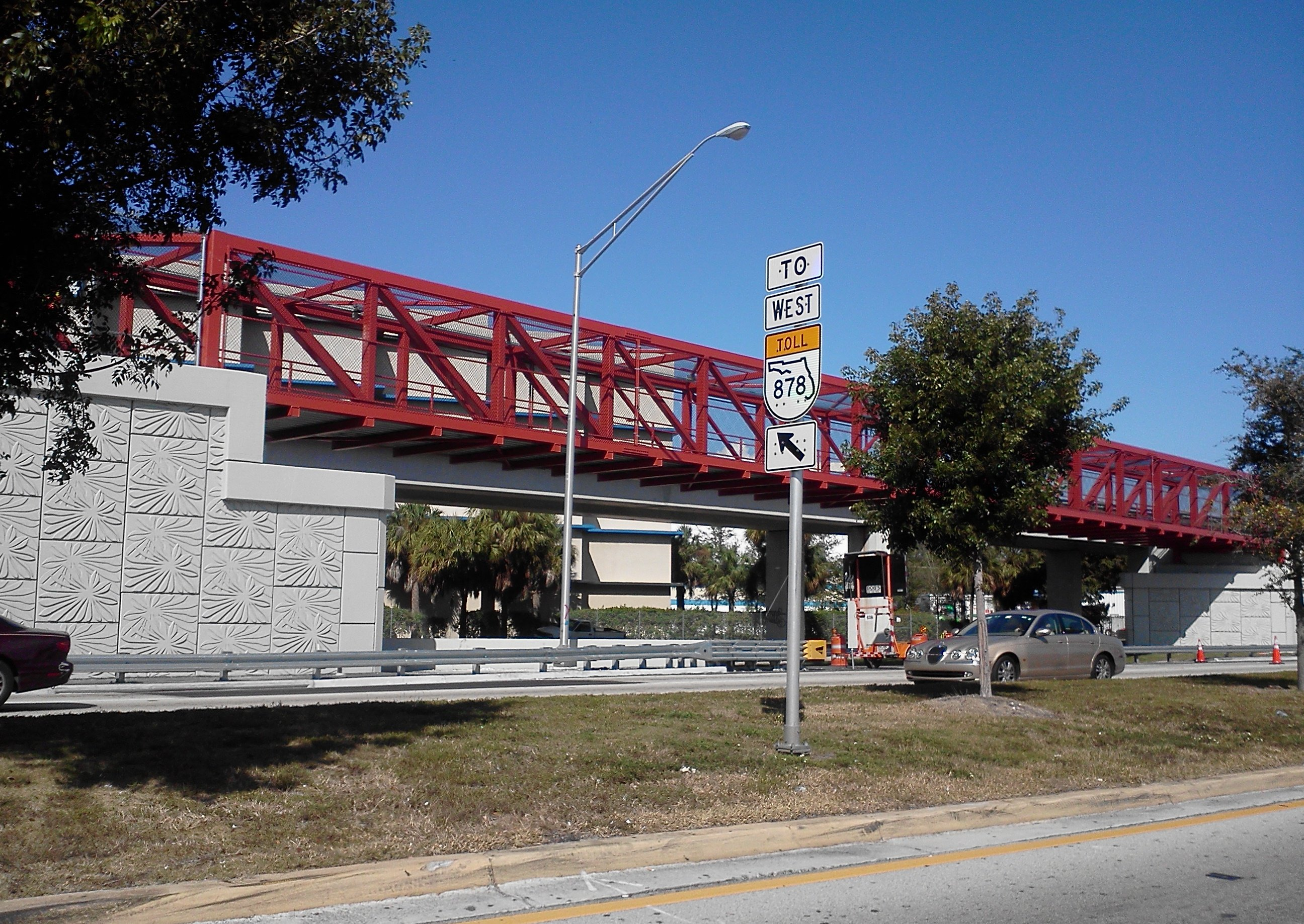 The new pedestrian and bicycle bridge over the Snapper Creek Expressway that completes the Miami MetroPath.